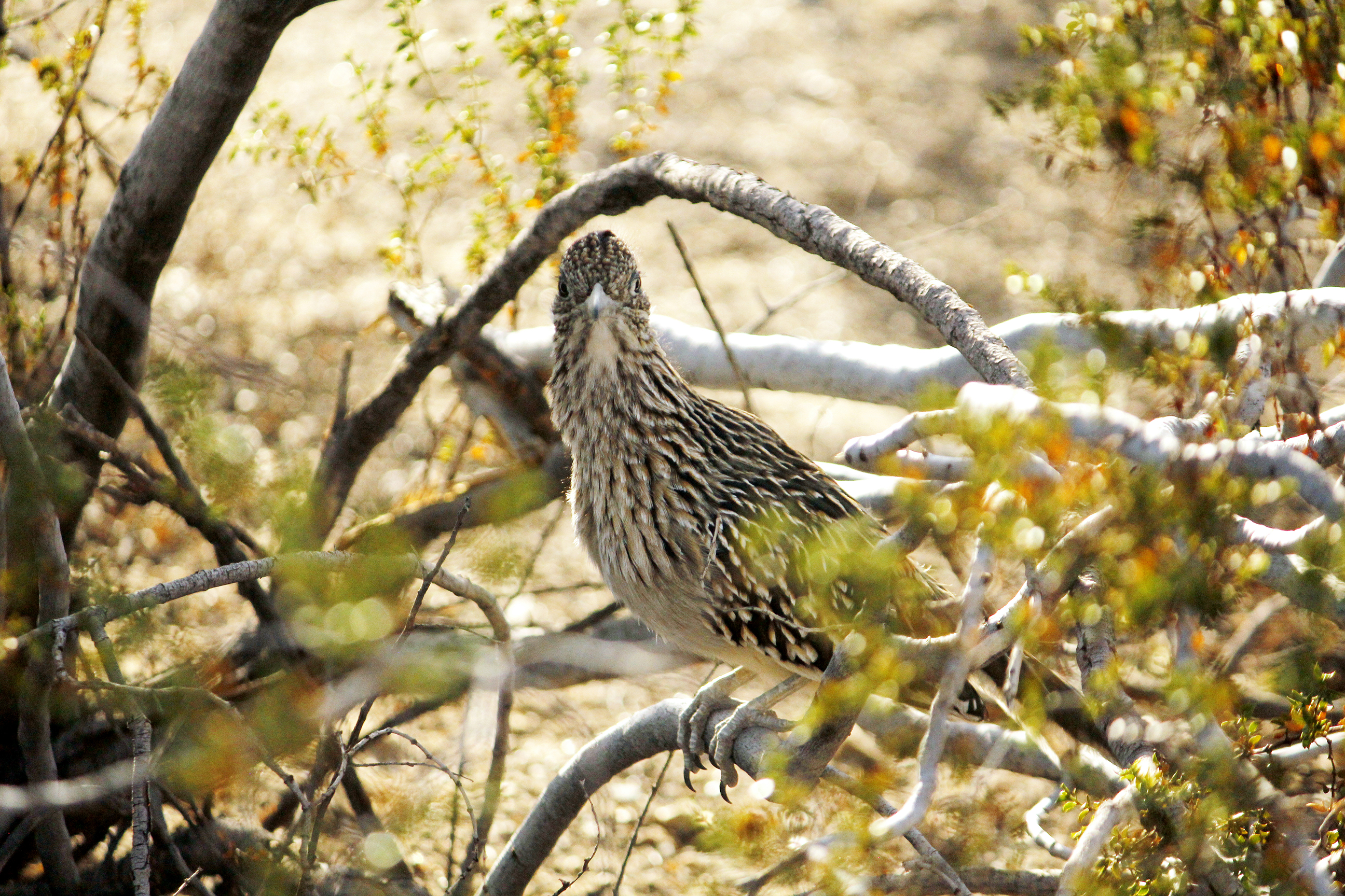 Birds in Joshua Tree National Park: Greater roadrunner (Geococcyx californianus)